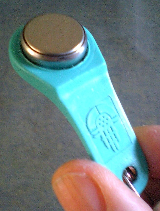 Istanbul public transport system Akbil electronic token. Photo taken in Canberra.